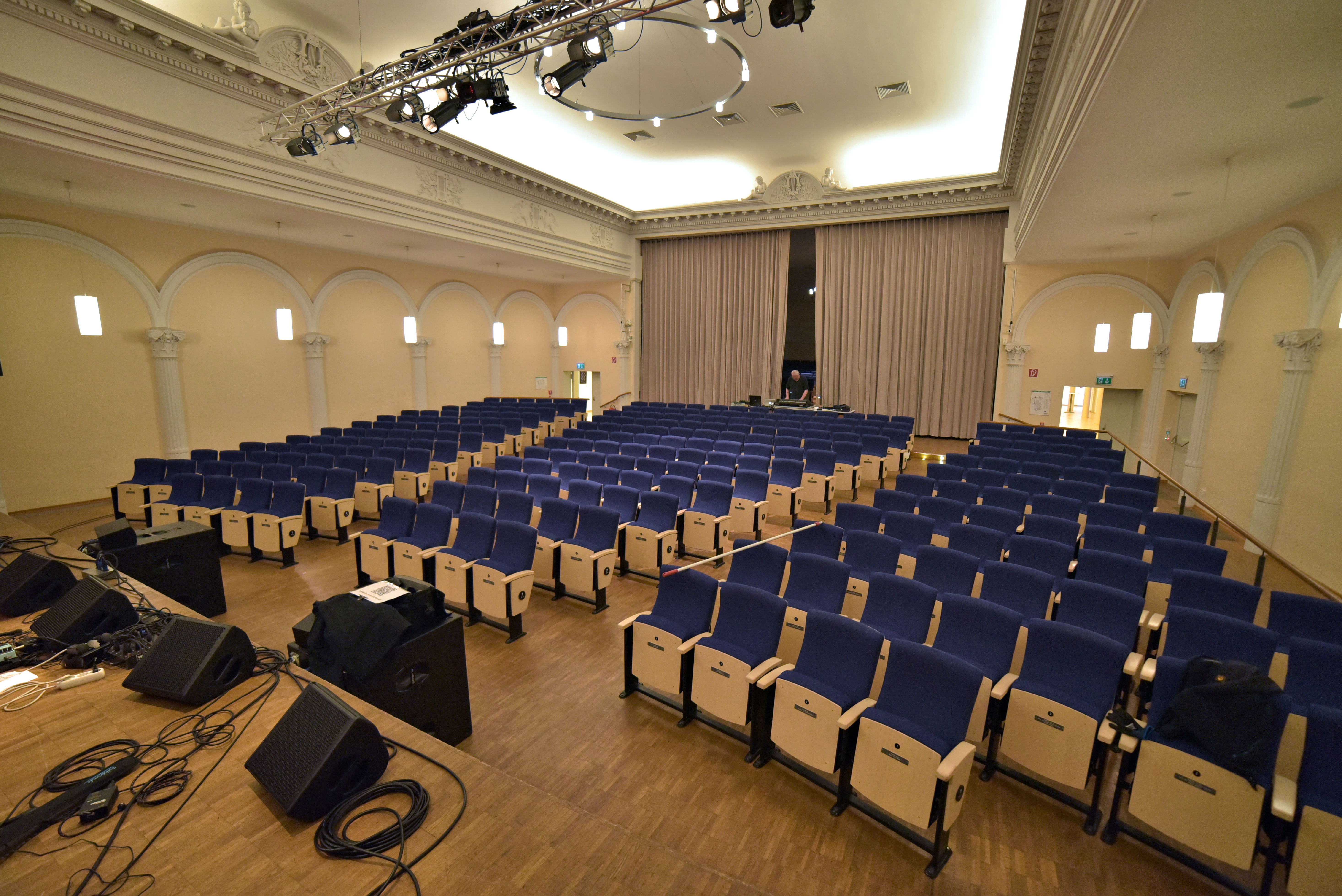 Larry Mathews Blackstone Band, setup, Kolosseum Lübeck, 9. Mar. 2018